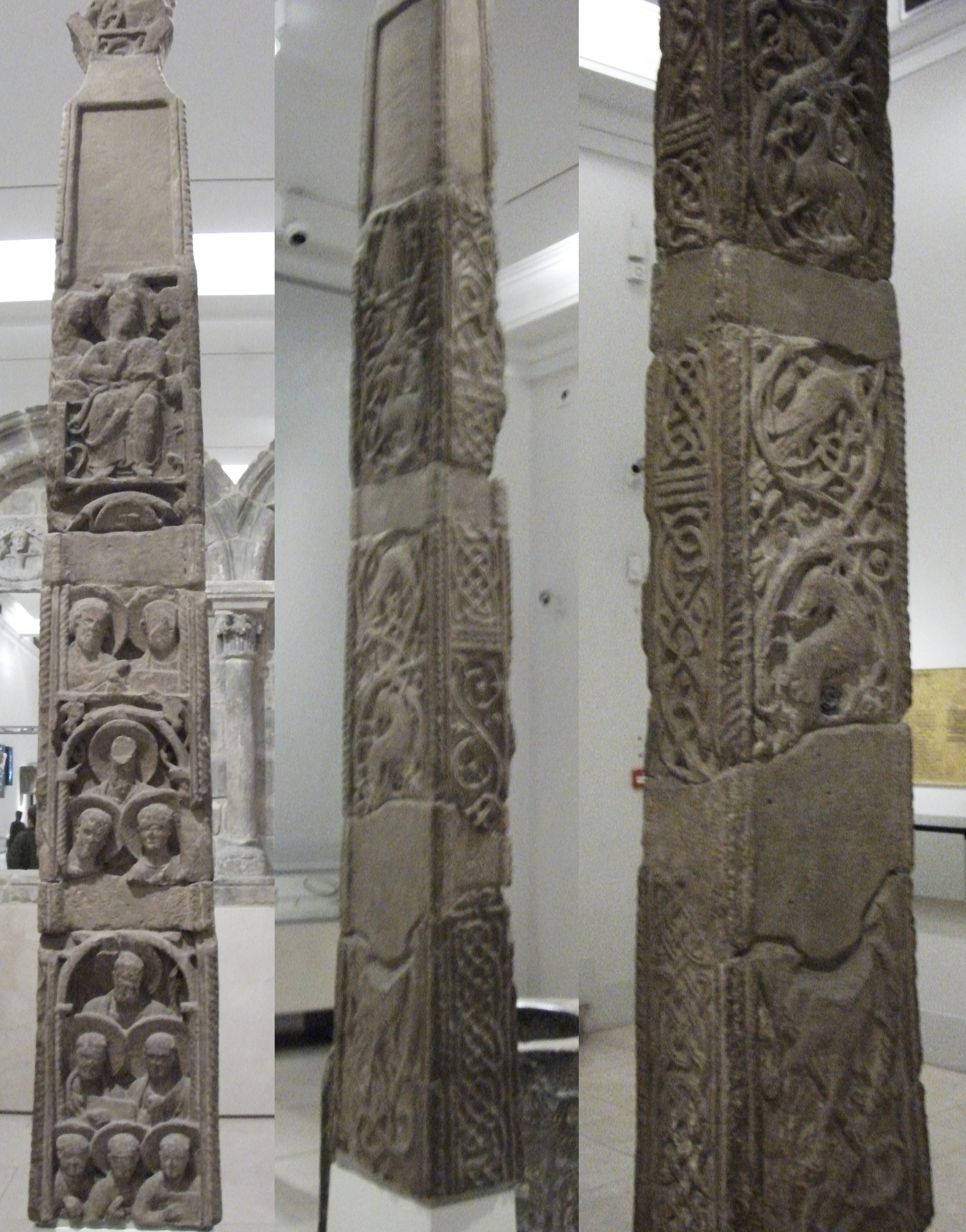 Triple view of the Easby Cross at the V&A